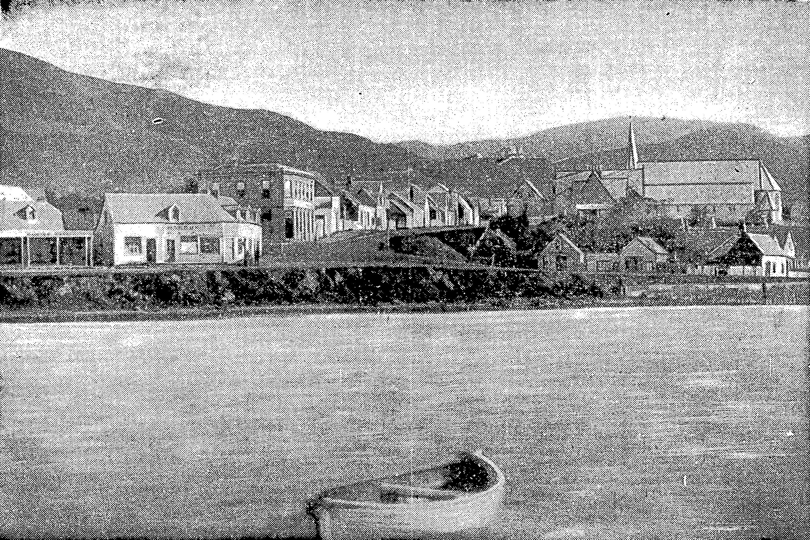 Where Mulgrave Street meets Thorndon Quay, Thorndon, Wellington. Prominent buildings are Thisle Inn (2 story building left of centre) and St Paul's Church.